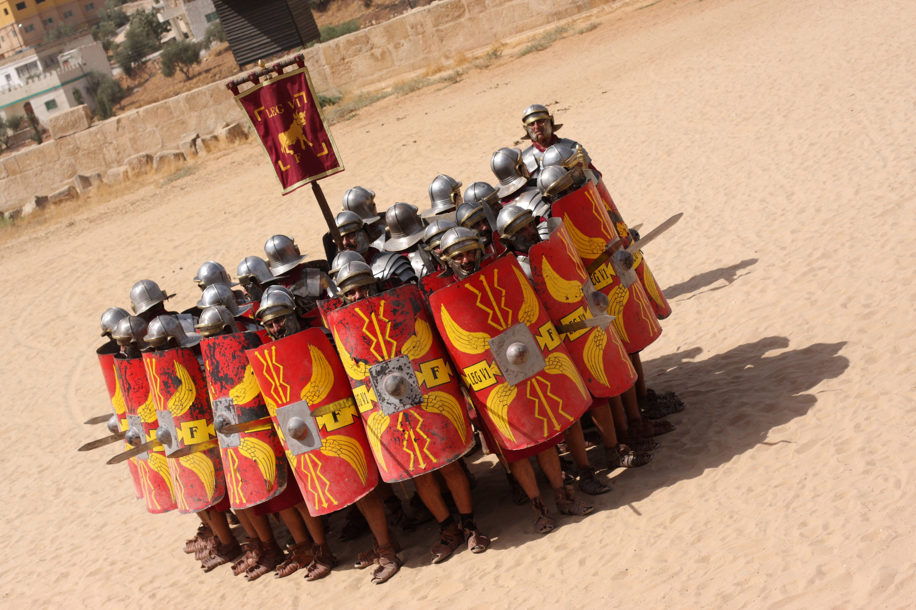 Roman Army & Chariot Experience, Hippodrome, Jerash, Jordan